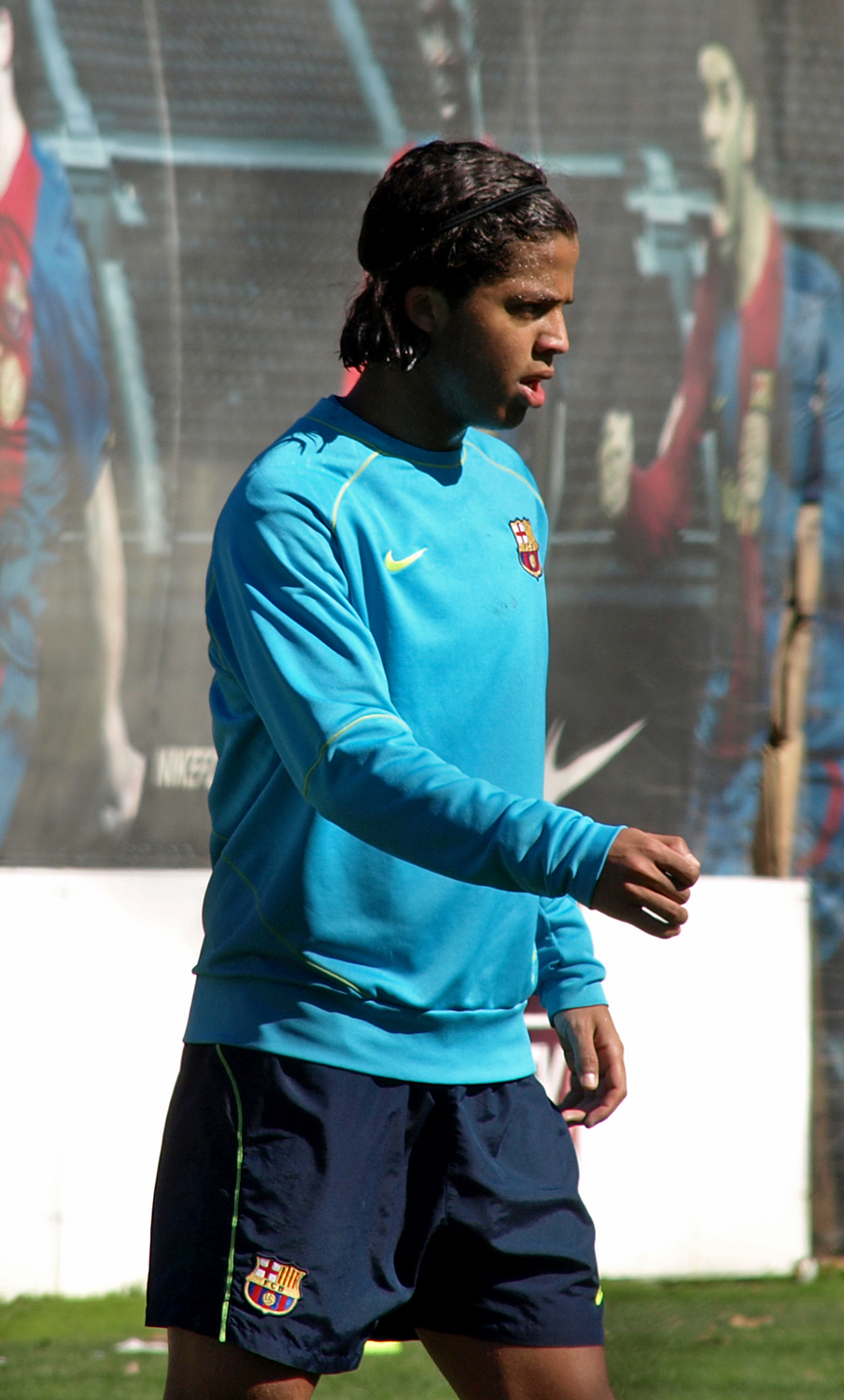 Giovani dos Santos (born May 11, 1989 in Monterrey, Nuevo León, Mexico) is a Mexican attacking midfielder, who can also play forward, who plays for Tottenham Hotspur and the Mexican national team.